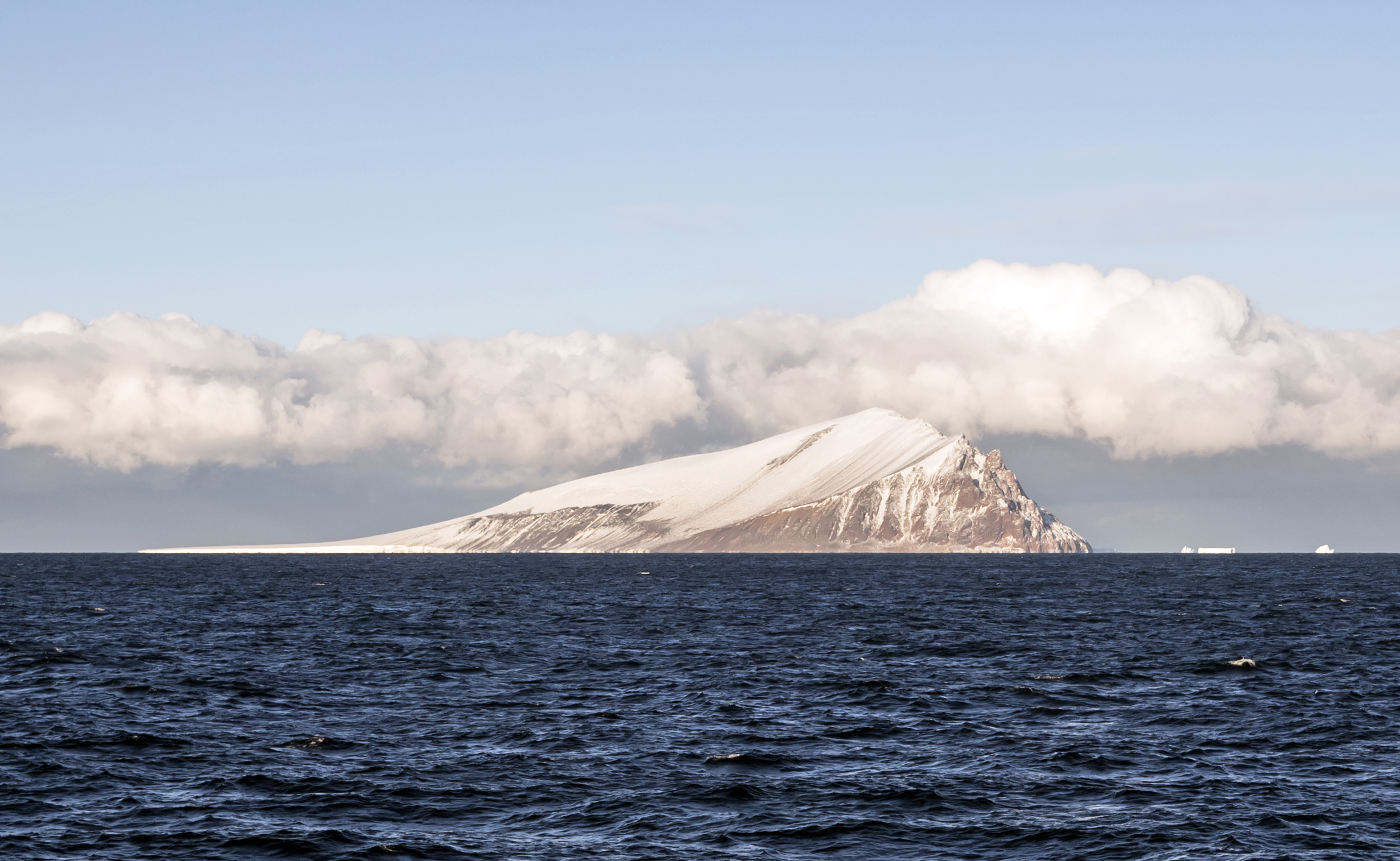 Beaufort Island. Ross Sea, Antarctica. 5 February 2014